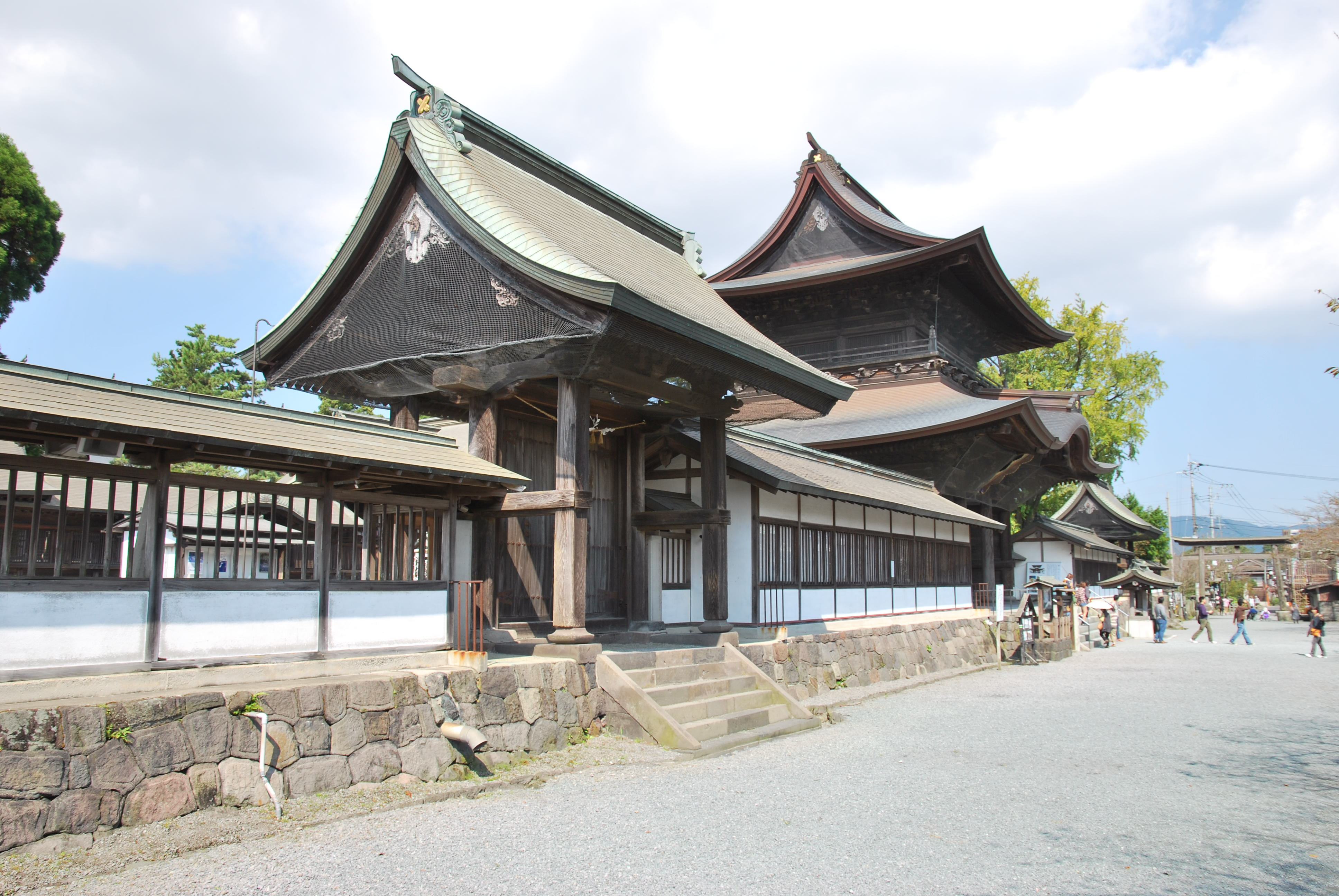 Kaerigomon, Rōmon and Miyukimon (all of these Japan's national important cultural property) and Horizontal approach, Aso-jinja